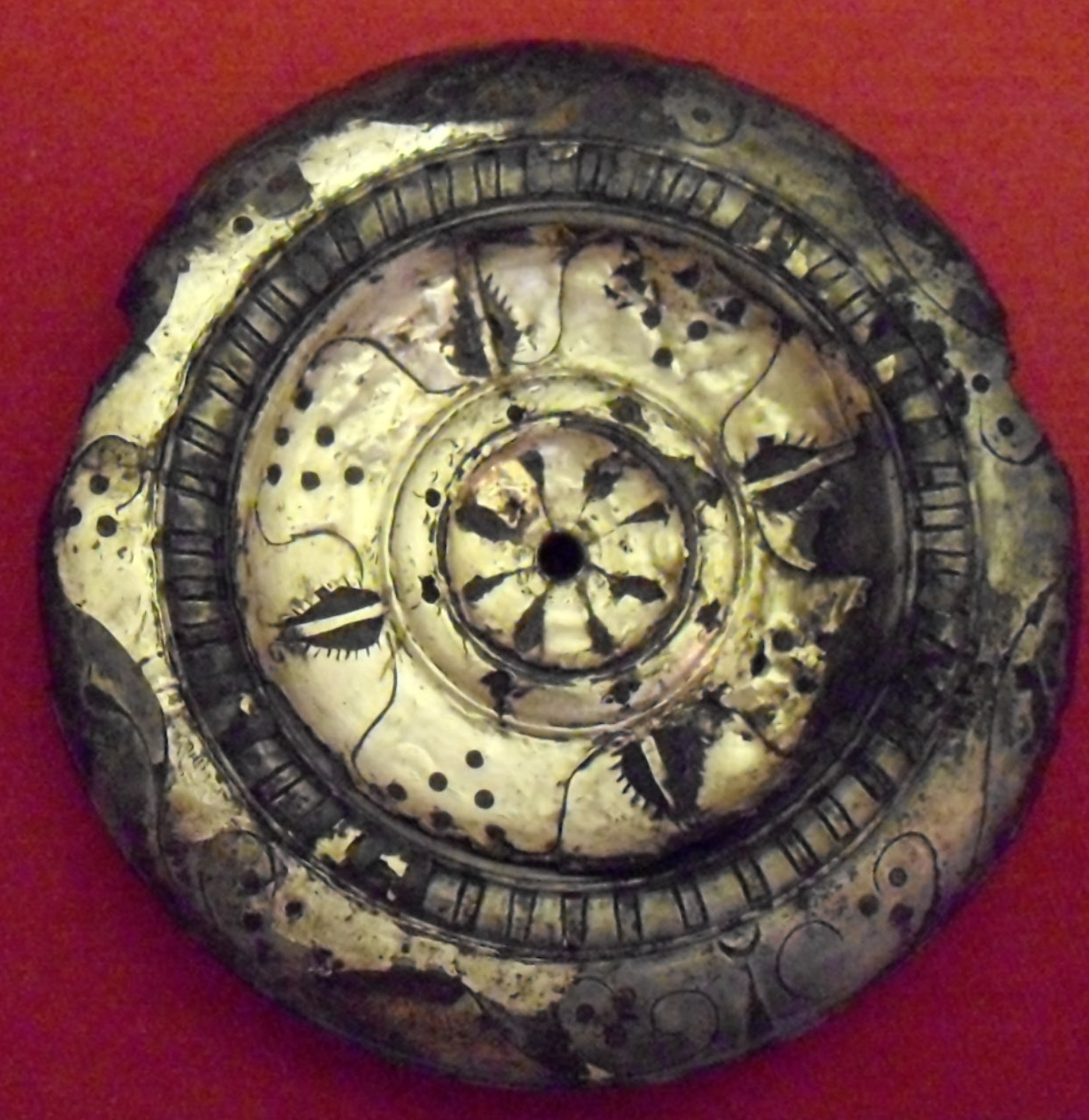 Fremington Hagg Hoard YORYM : H141.18. In the Yorkshire Museum (York Museums Trust)